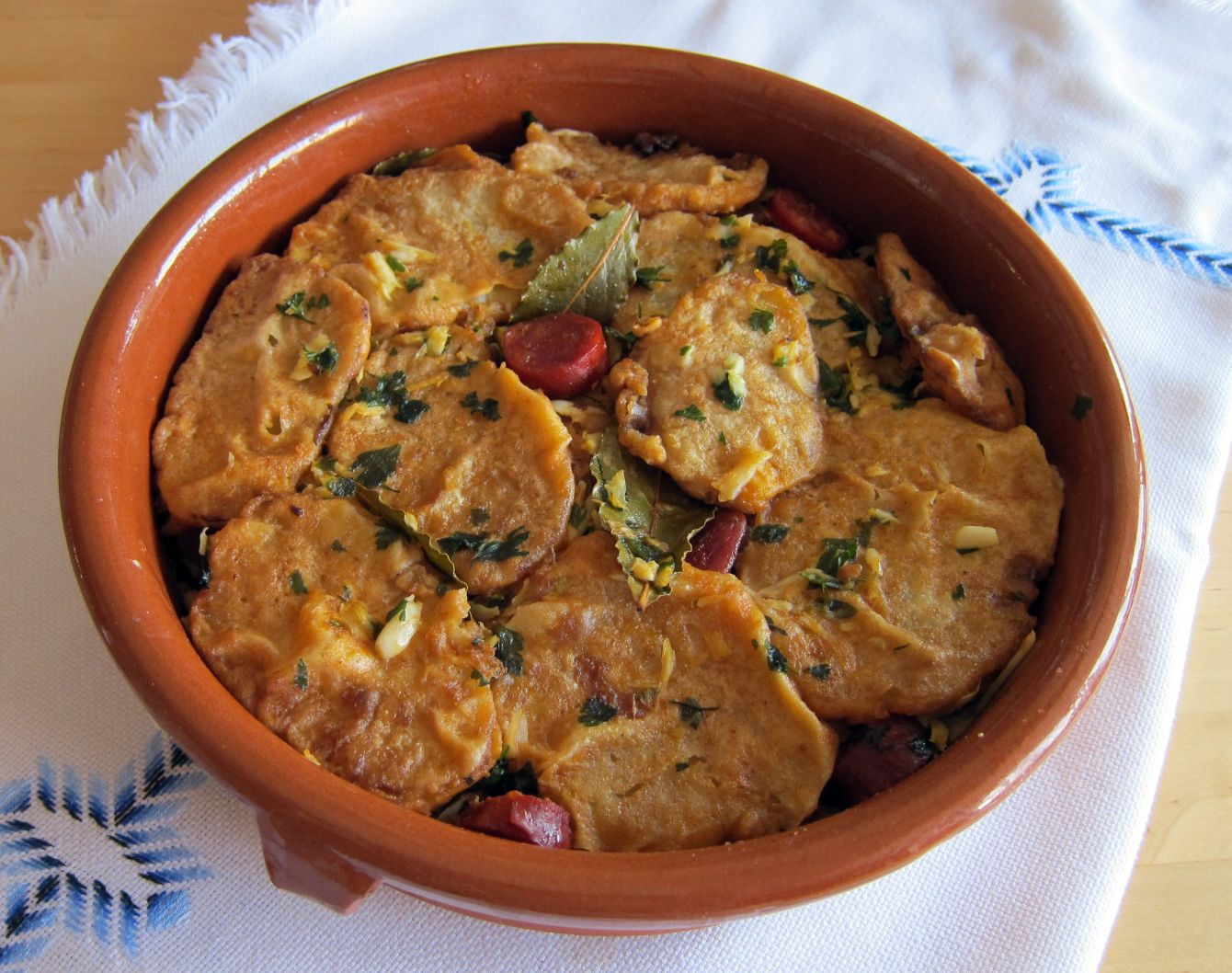 Potatoes to the importance. Traditional dish of the gastronomy of Palencia (Castile and León).